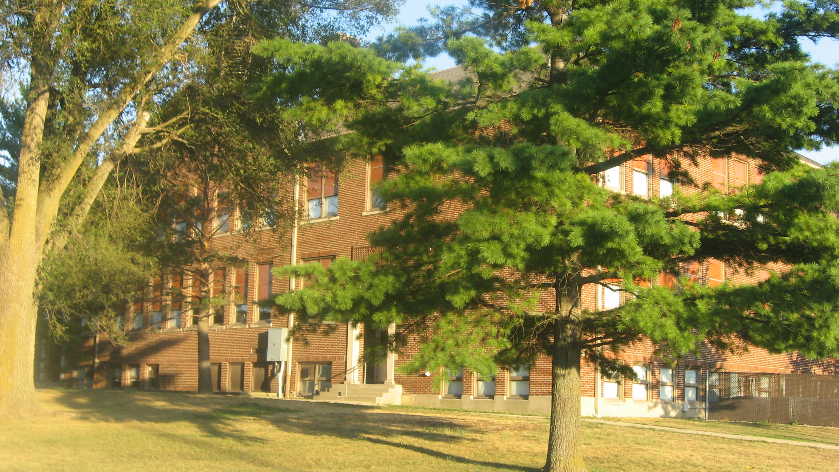 Front of the tree-surrounded Center Township Grade and High School, located at 929 E. South Street at Mays in Center Township, Rush County, Indiana, United States. Built in 1929, it is listed on the National Register of Historic Places.